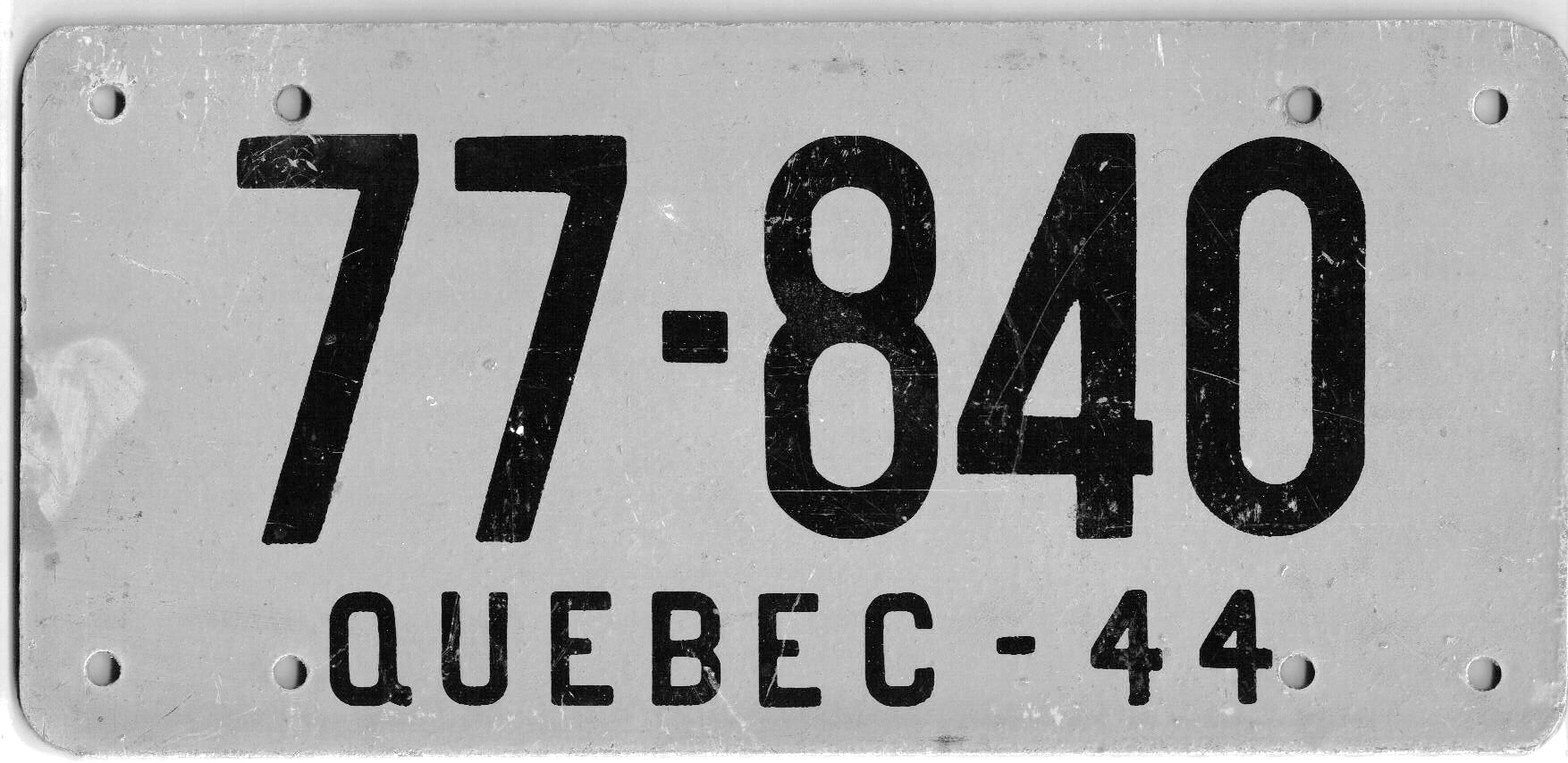 1944 Quebec license plate made of masonite. This was done due to metal conservation during World War II.QUEBEC 1944 masonite plate